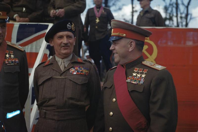 Field Marshal Montgomery Decorates Russian Generals at the Brandenburg Gate in Berlin, Germany, 12 July 1945 The Commander of the 21st Army Group Field Marshal Sir Bernard Montgomery and the Deputy Supreme Commander in Chief of the Red Army, Marshal G Zhukov after the ceremony in which Marshal Zhukov was invested as a Knight Grand Cross of the Order of the Bath by Field Marshal Montgomery. The ceremony took place at the Brandenburg Gate in Berlin and a Guard of Honour was formed by the 7th Armoured Division.